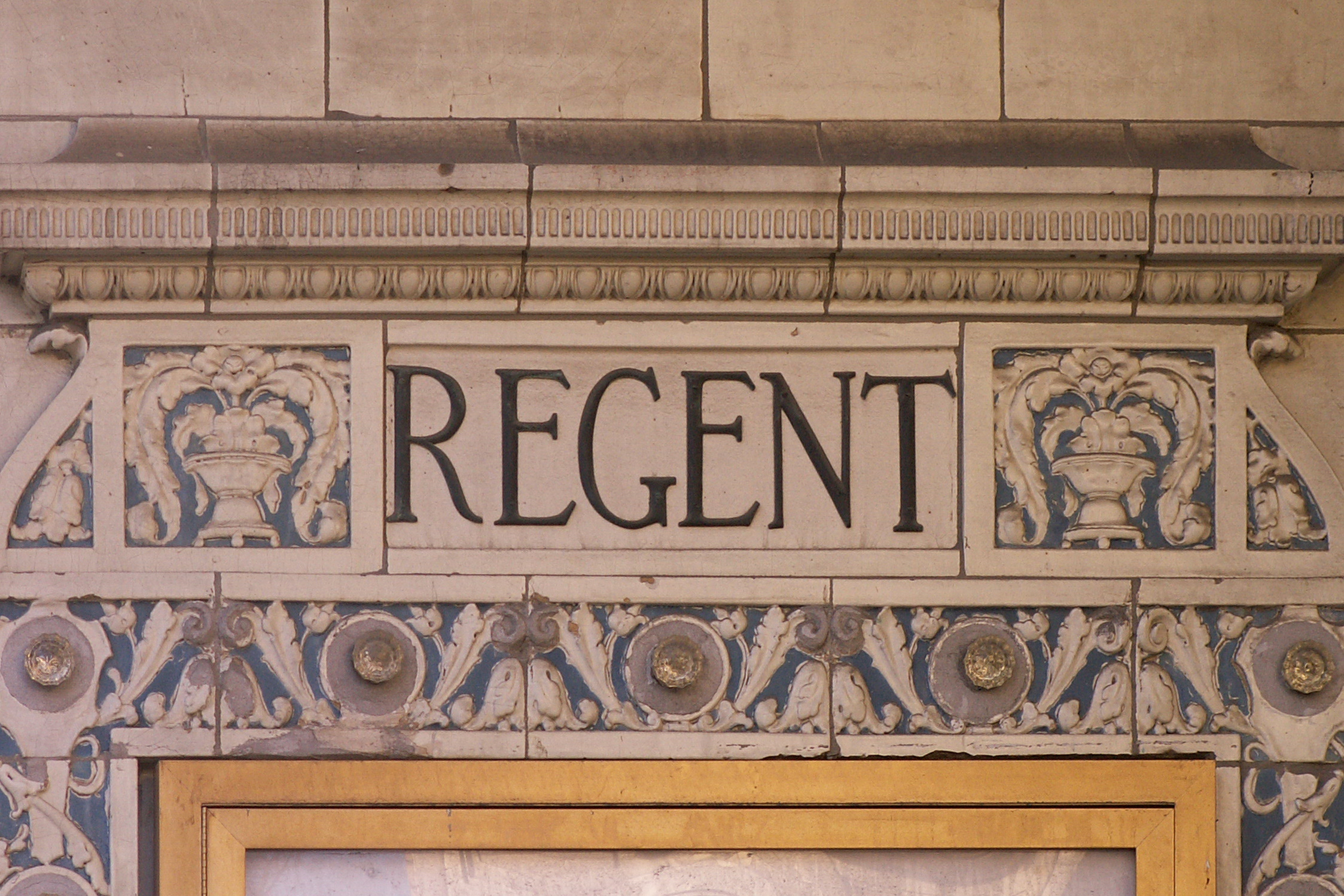 Decoration on the Regent Theater (now Kelly Strayhorn Theater), East Liberty, Pittsburgh